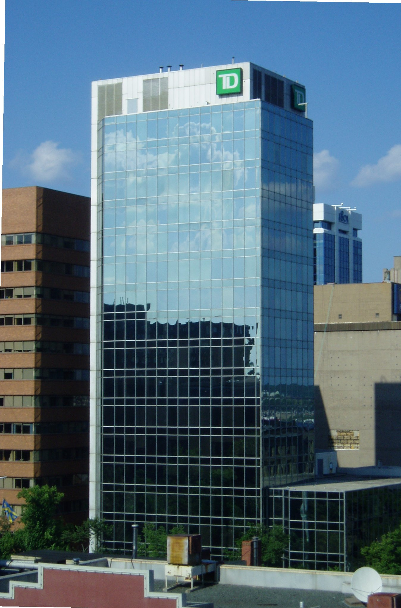 The TD Tower, taken by SimonP